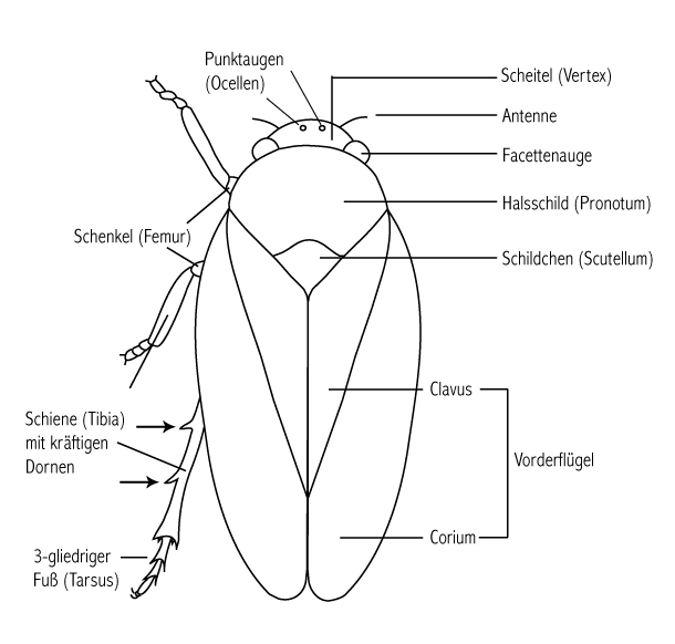 Scheme drawing: Morphology of froghoppers (Cercopidae) with notes in German